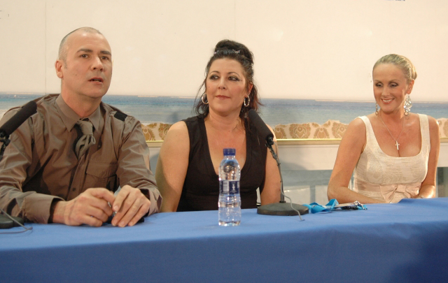 Susan Sulley, Philip Oakey and Joanne Catherall. Private Q&A session July 2007 in Valencia.